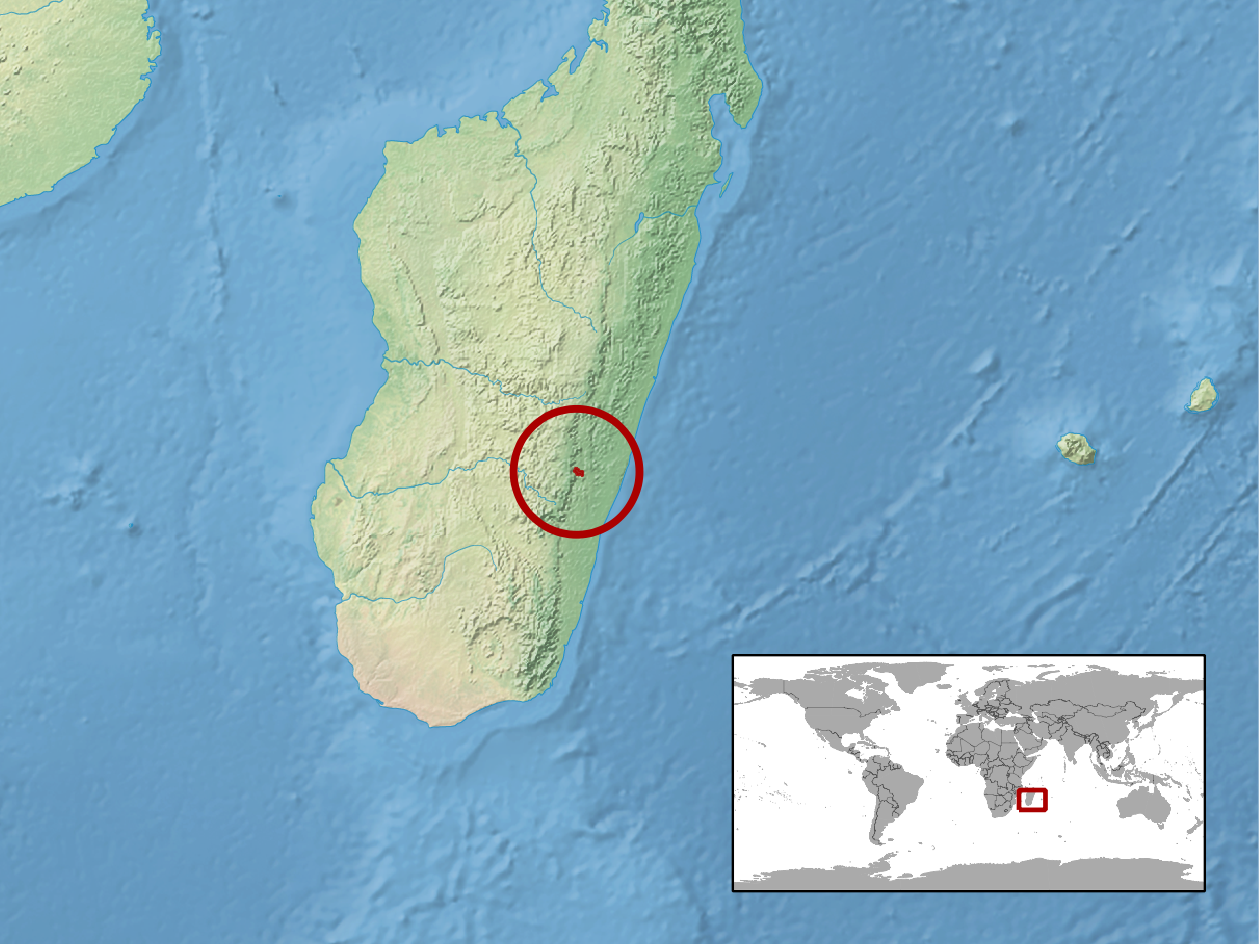 geographic distribution of Matoatoa spannringi (Possibly extinct: Madagascar)